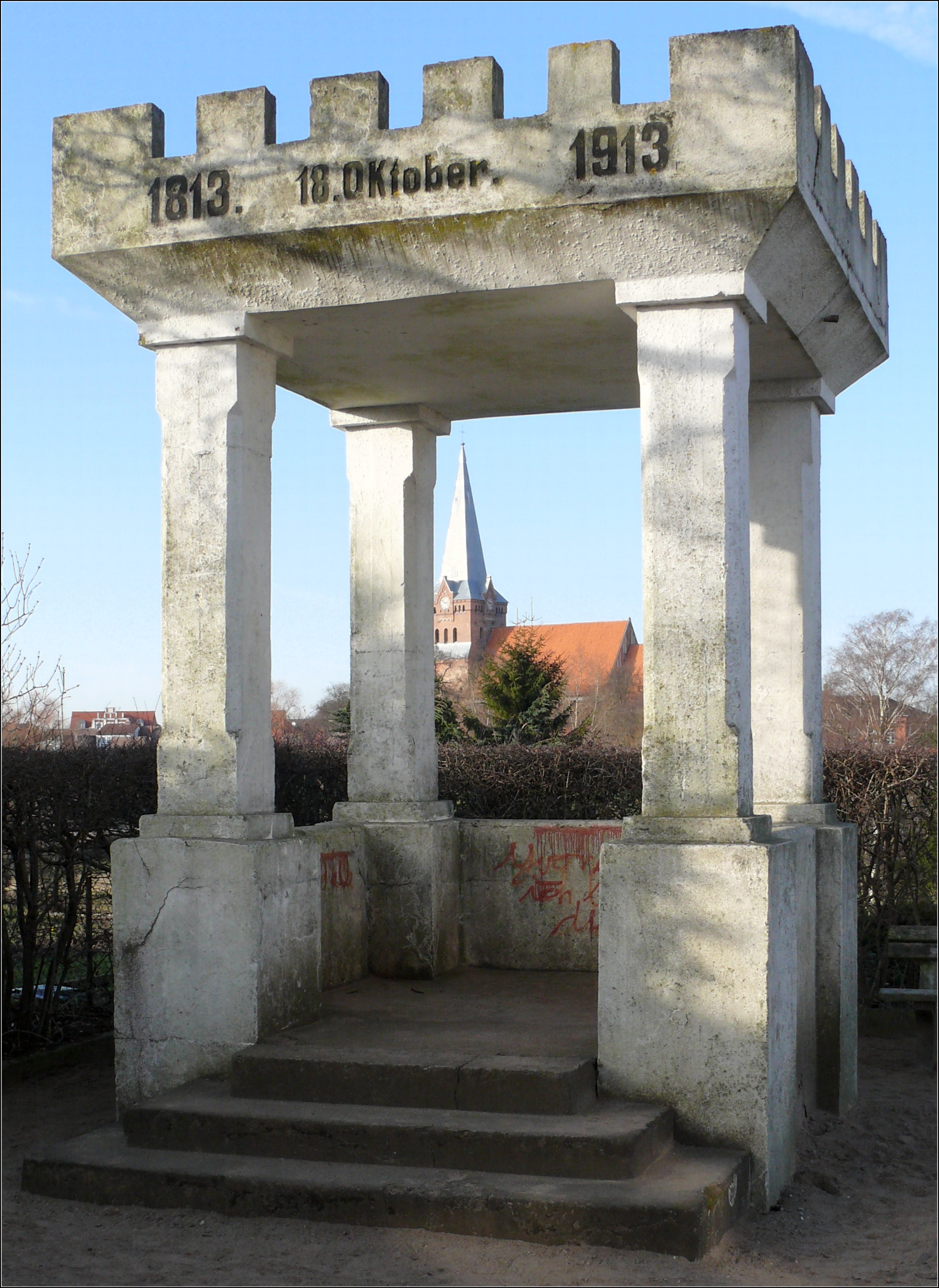 Memorial to the Battle of Leipzig 1813 in Bad Sülze